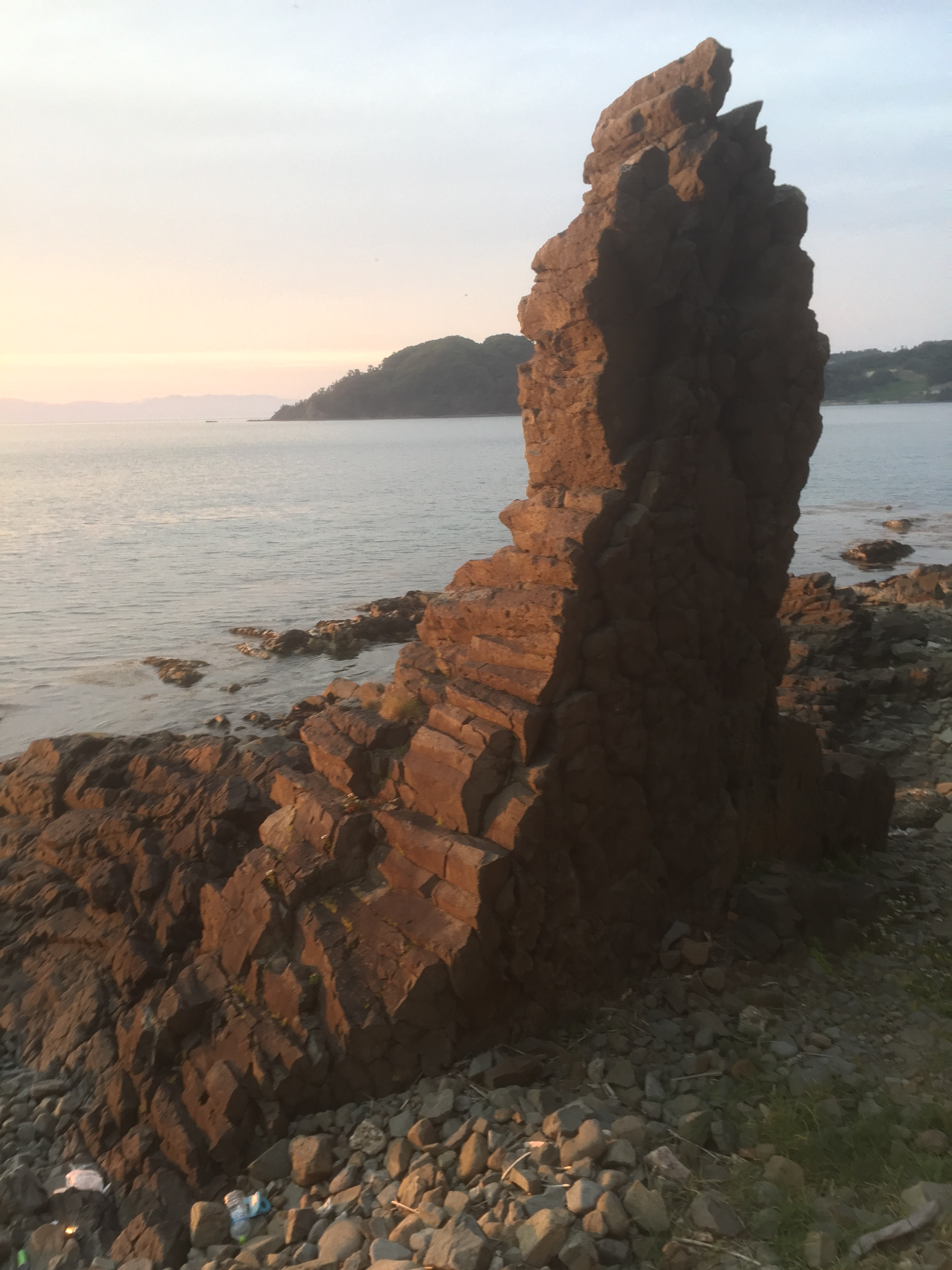 A magmatic dike on Natsudomari Peninsula from the extinct Sasamori volcano on the shore of Aomori Bay.